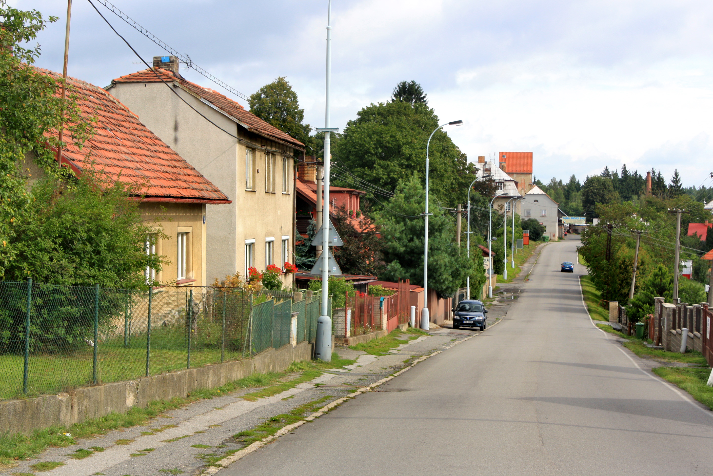 Pražská street in Radlík, part of Jílové u Prahy, Czech Republic